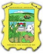 Escudo de Armas del Mpio Nuevo Morelos Tamaulipas